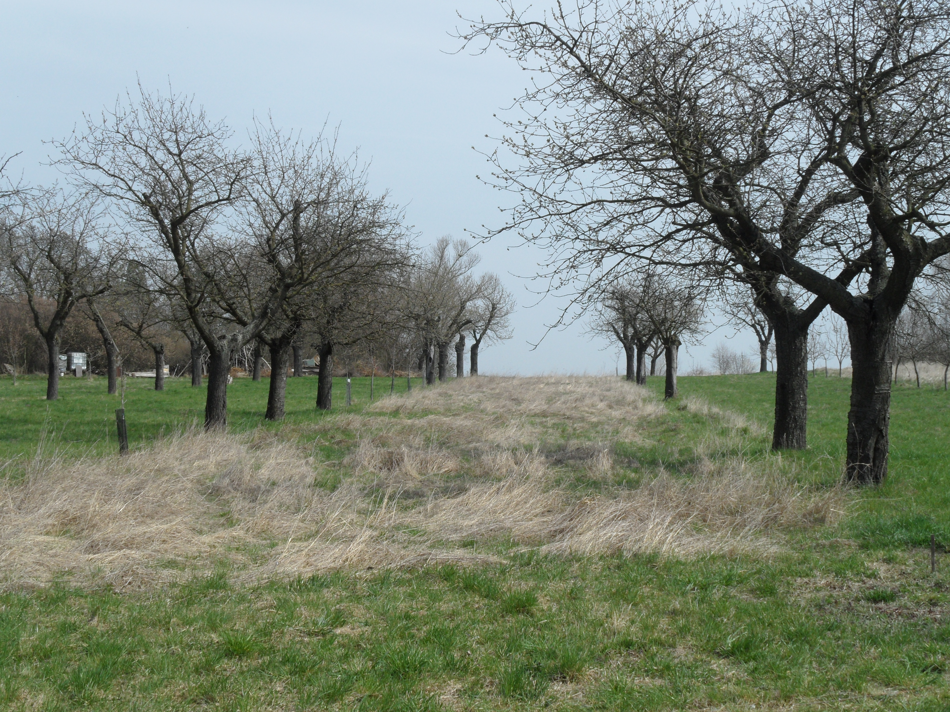 Velim, former Ancient Fortified Settlement Skalka 2. Area with no Visible Traces. Kolín District, the Czech Republic.